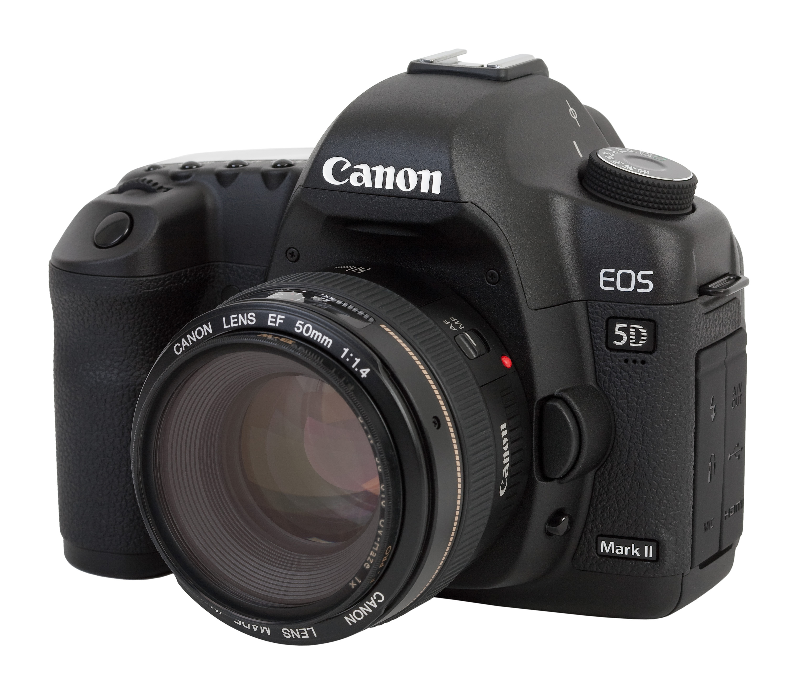 Canon EOS 5D Mark II camera, with Canon EF 50mm f/1.4 USM lens (fitted with a B+W 010 UV-Haze 58mm filter).